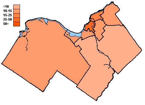 Map made by uploader (User:Earl Andrew); see [1] (question about source) and [2] (response).